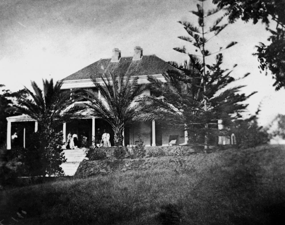 Manning family on the steps of Milton House, 1868 Front view of Milton House showing the Maning family on the front steps, 1868. Milton House was erected in 1852 or 1853 for retired Queen Street chemist Ambrose Eldridge.This hip-roofed house is Colonial Georgian in style and plan, having a typical front doorway with segmented sidelights with arched fanlight, and a symmetrical arrangement of rooms radiating off a central hallway on each floor. The ground floor has wide, open verandahs on three sides. Two service rooms run across the rear of the house incorporating pavilion wings off the side verandahs. The walls are of brick, which is lime rendered and jointed to give the impression of stone. A three-roomed cellar is constructed of rough rubble walling, and entered by steps on the south side of the verandah. The roof is covered in shingles.